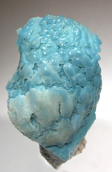 Chalcanthite, Aragonite Locality: Tsumeb Mine (Tsumcorp Mine), Tsumeb, Otjikoto (Oshikoto) Region, Namibia (Locality at ) Size: 4.5 x 3.5 x 1.2 cm. An attractive and unusual specimen in which the Aragonite is turned blue by the Chalcantite inclusions. Ex. Willy Israel Collection.